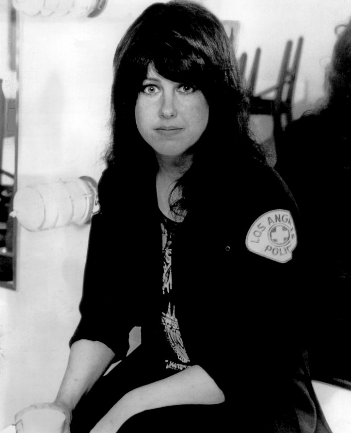 Publicity photo of Grace Slick when she was with Jefferson Starship.